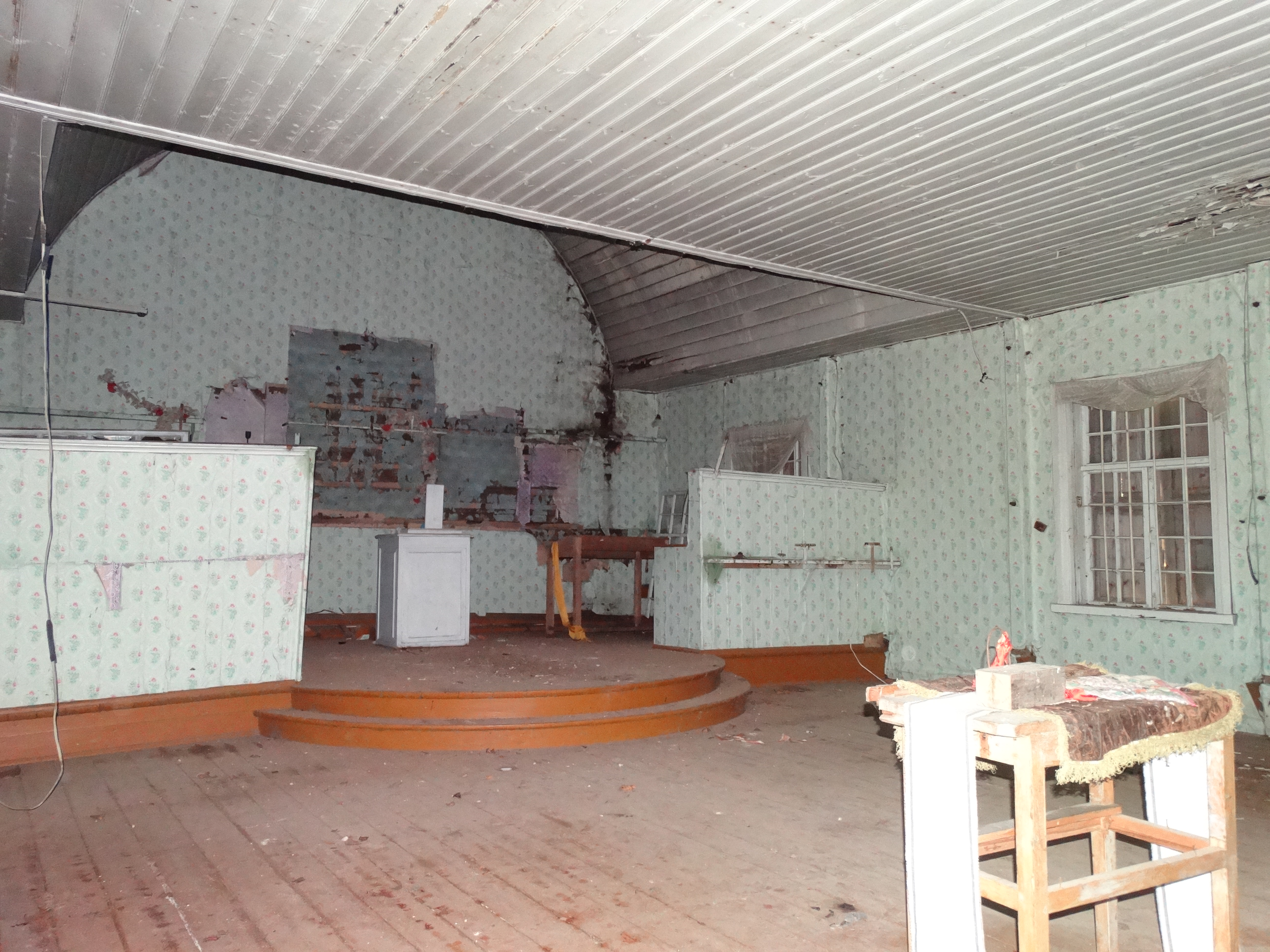 Church of Old Believers in Aukštakalniai, Ignalina District, Lithuania